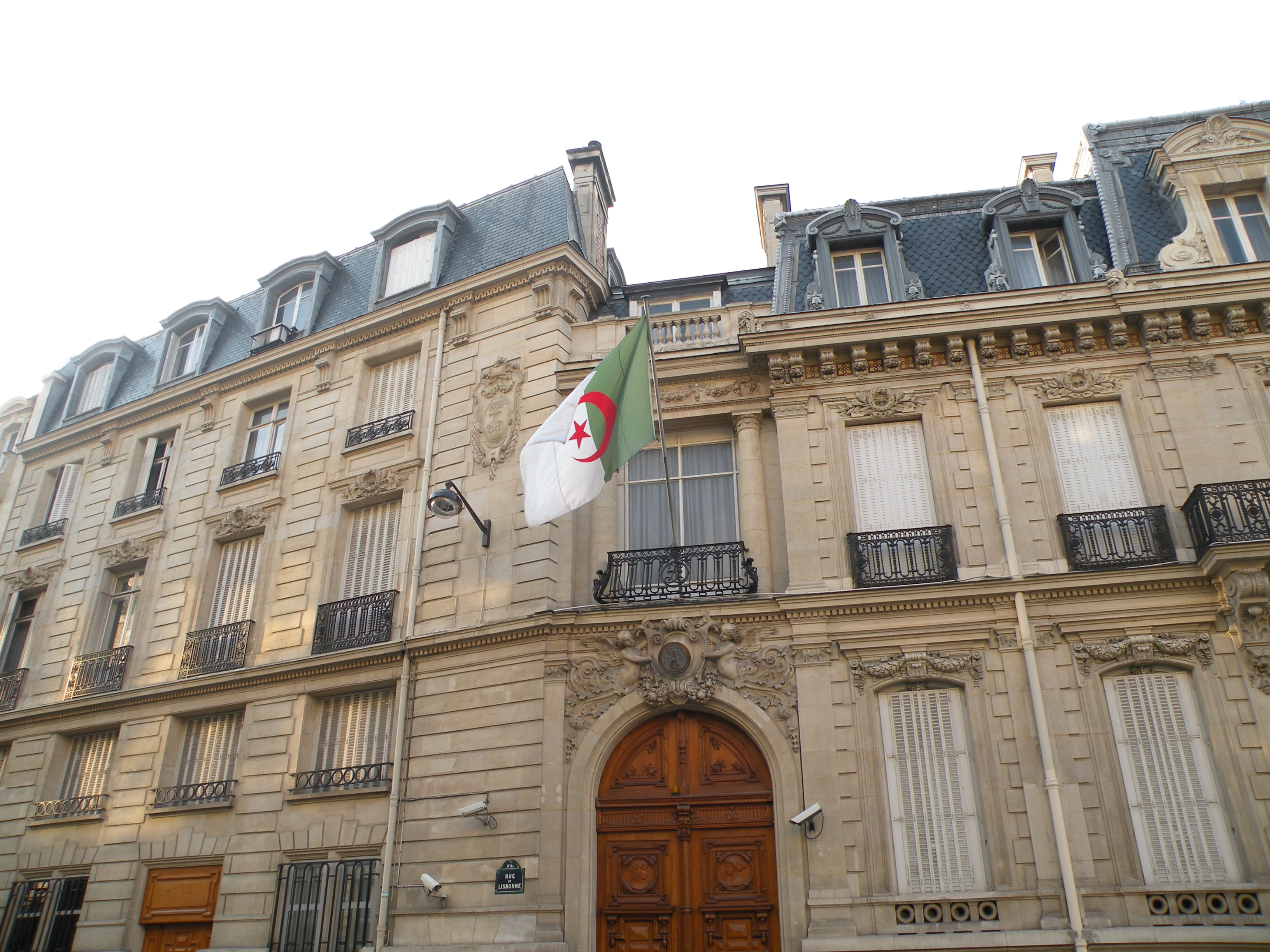 Algerian embassy in France, Paris.